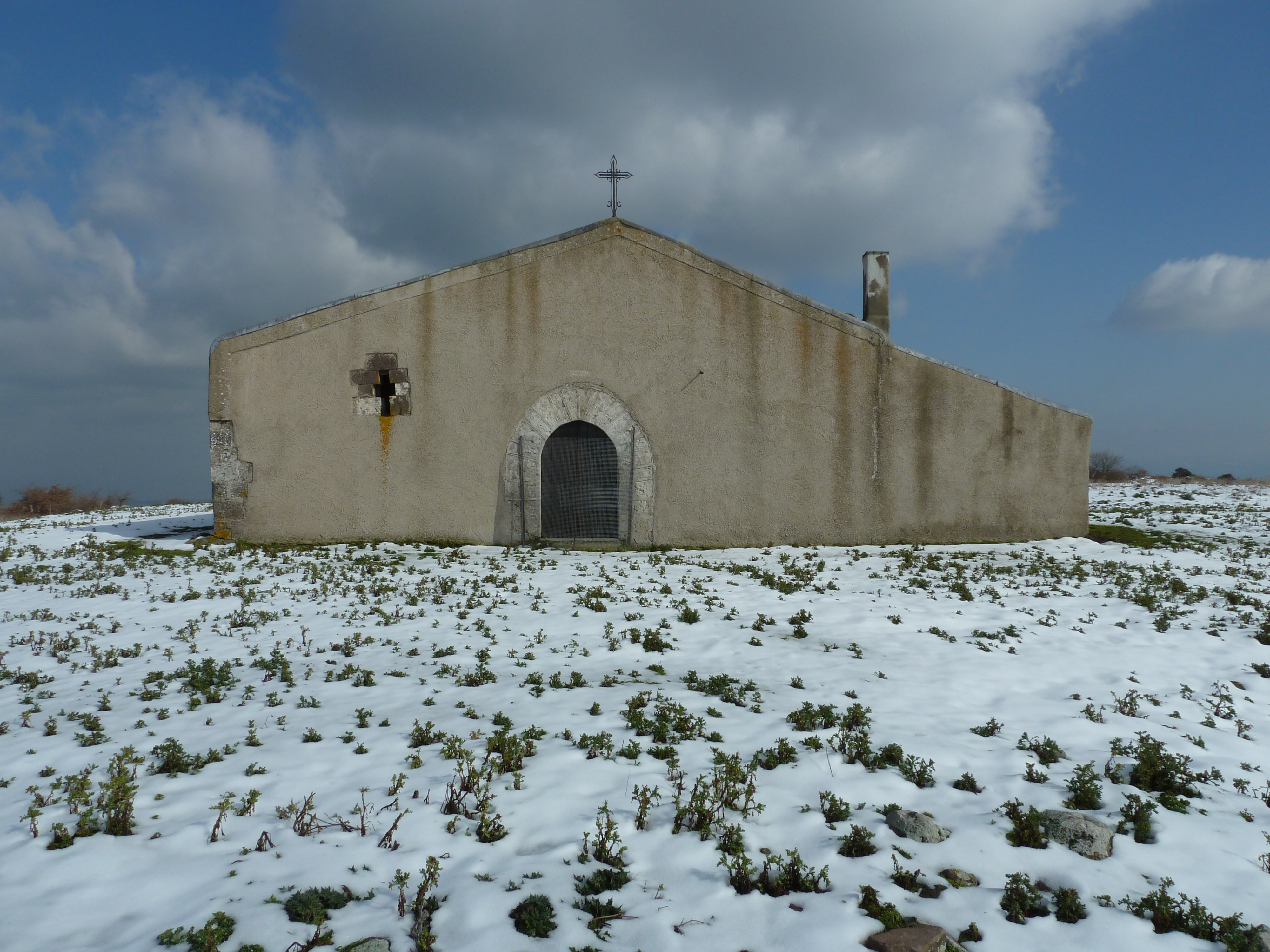 Church on the top of Monte Santo